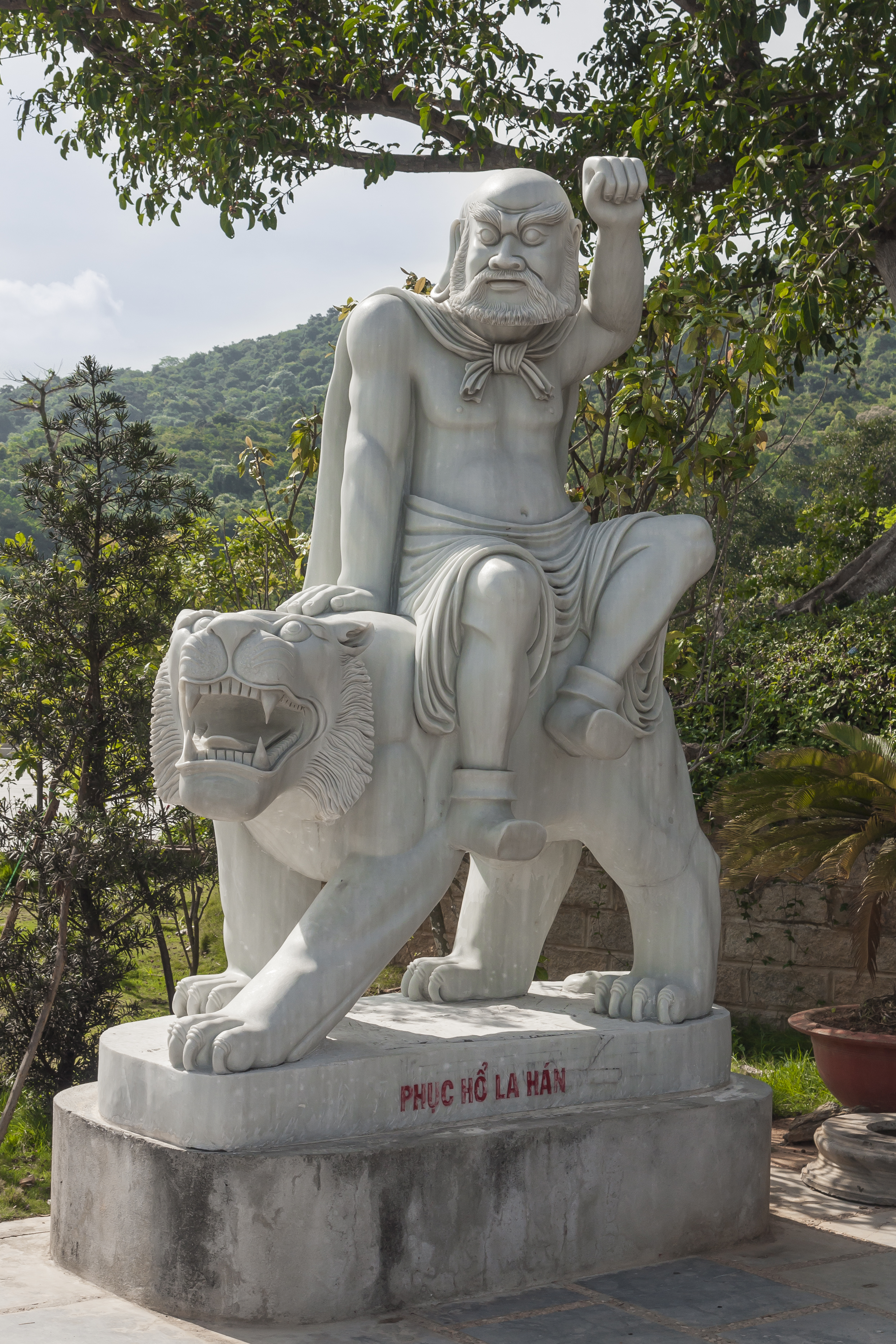 Son Tra Peninsula, Da Nang, Vietnam: Statue in front of Linh Ung Pagoda